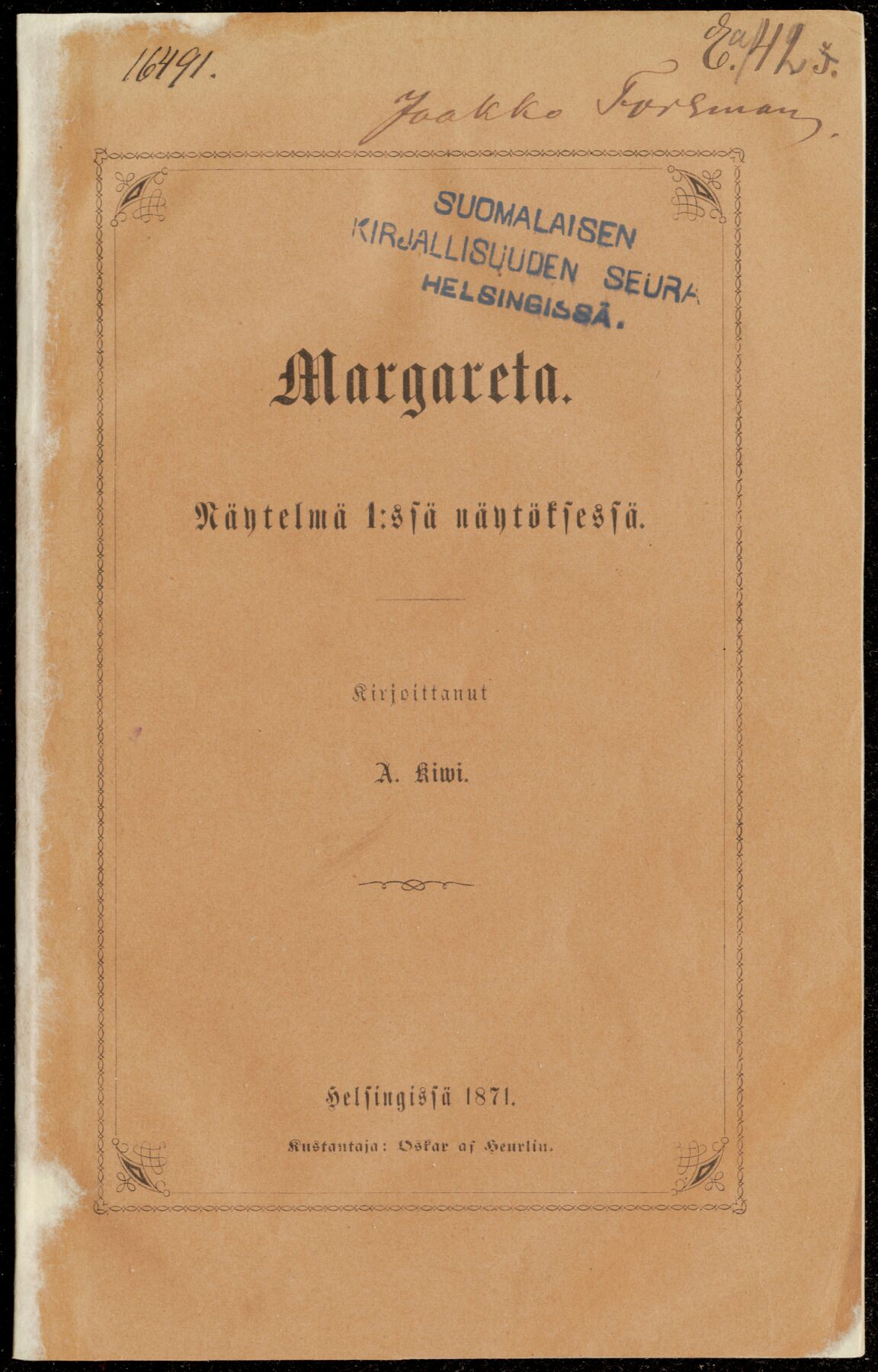 Title page of Aleksis Kivi’s tage play Margareta, first edition.